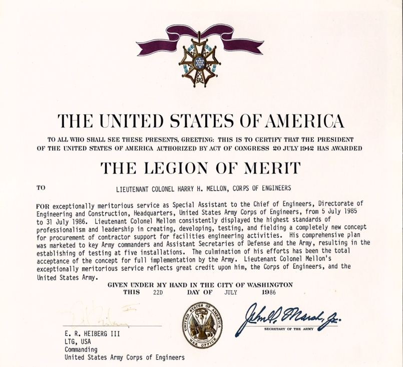 The Legion of Merit given to Harry H. Mellon for the invention and testing of Job Order Contracting.